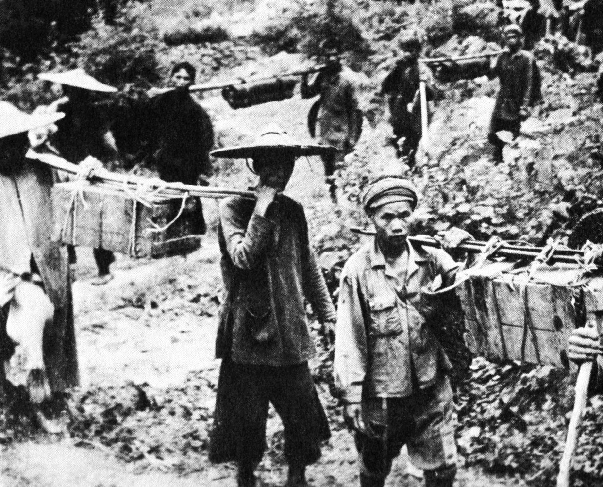 Ho Chi Minh trail from the very begining was using Vietnamese and Laotian people. Captured Vietcong's photo